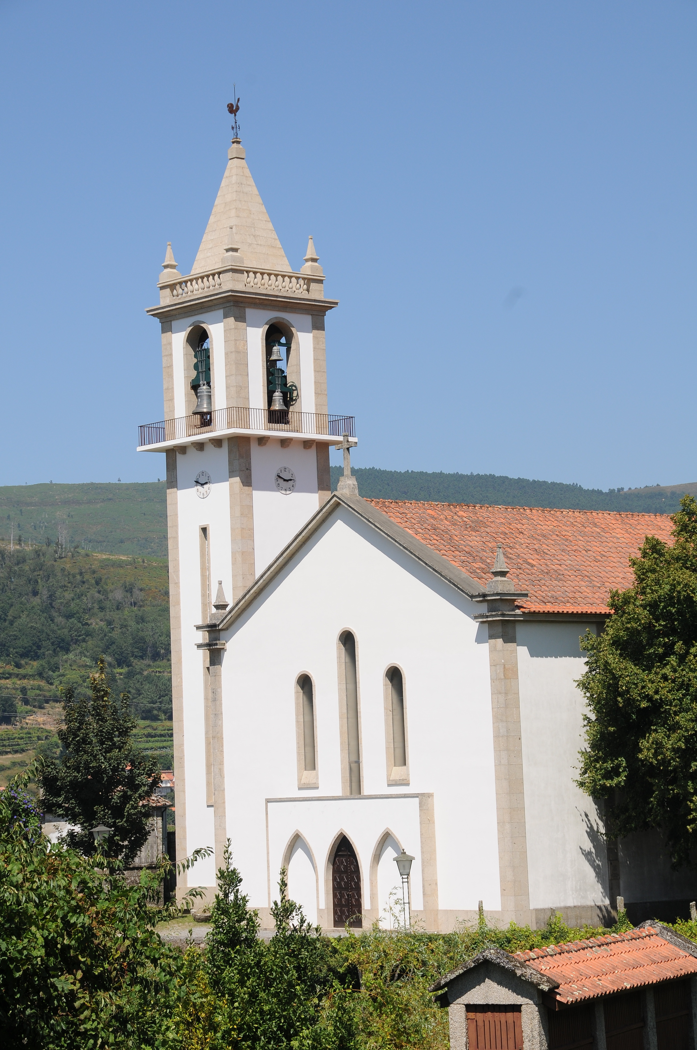 Riba de Mouro Church, in Riba de Mouro, Monção, Portugal